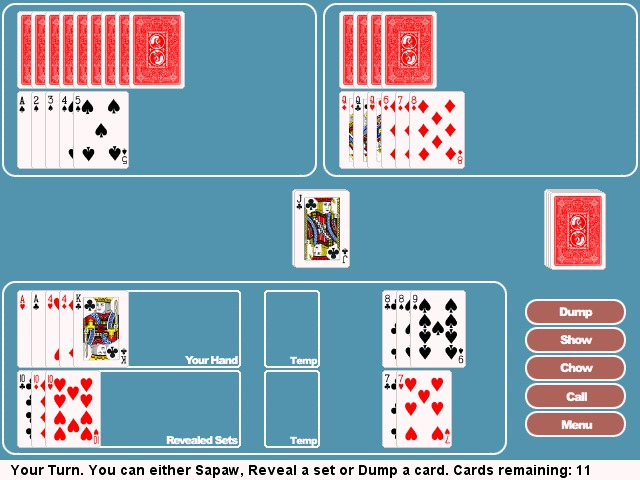 Free and open-source Tong-Its game developed by Rico Zuñiga and released on December 2003